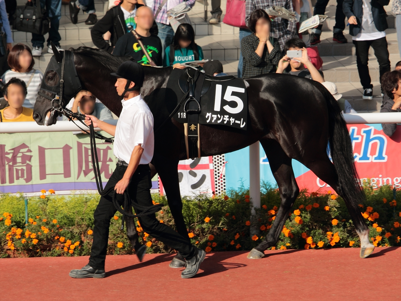 Guanciale (Racehorse of Japan).